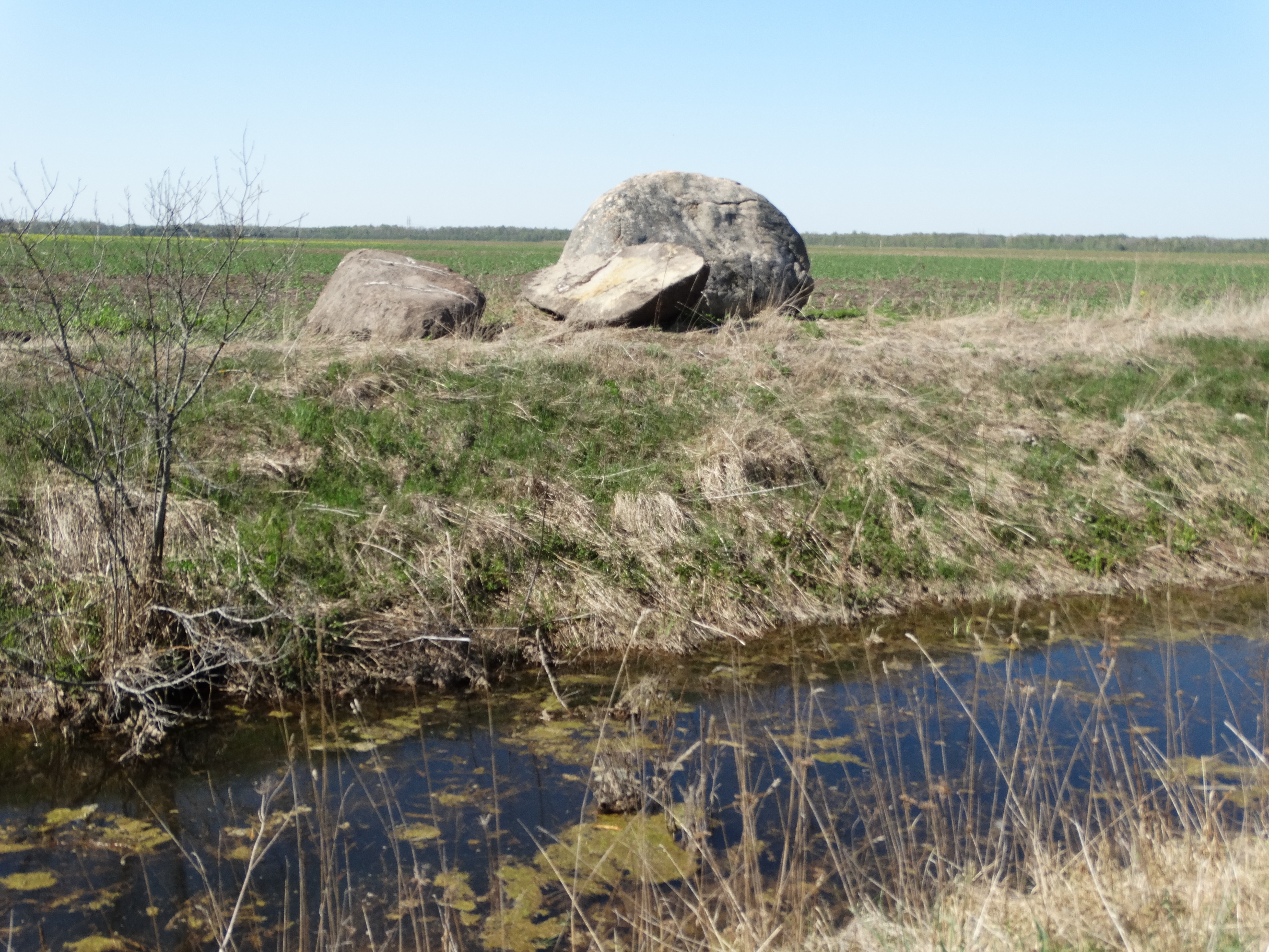 Stone Užkalnių, Panevėžys District, Lithuania